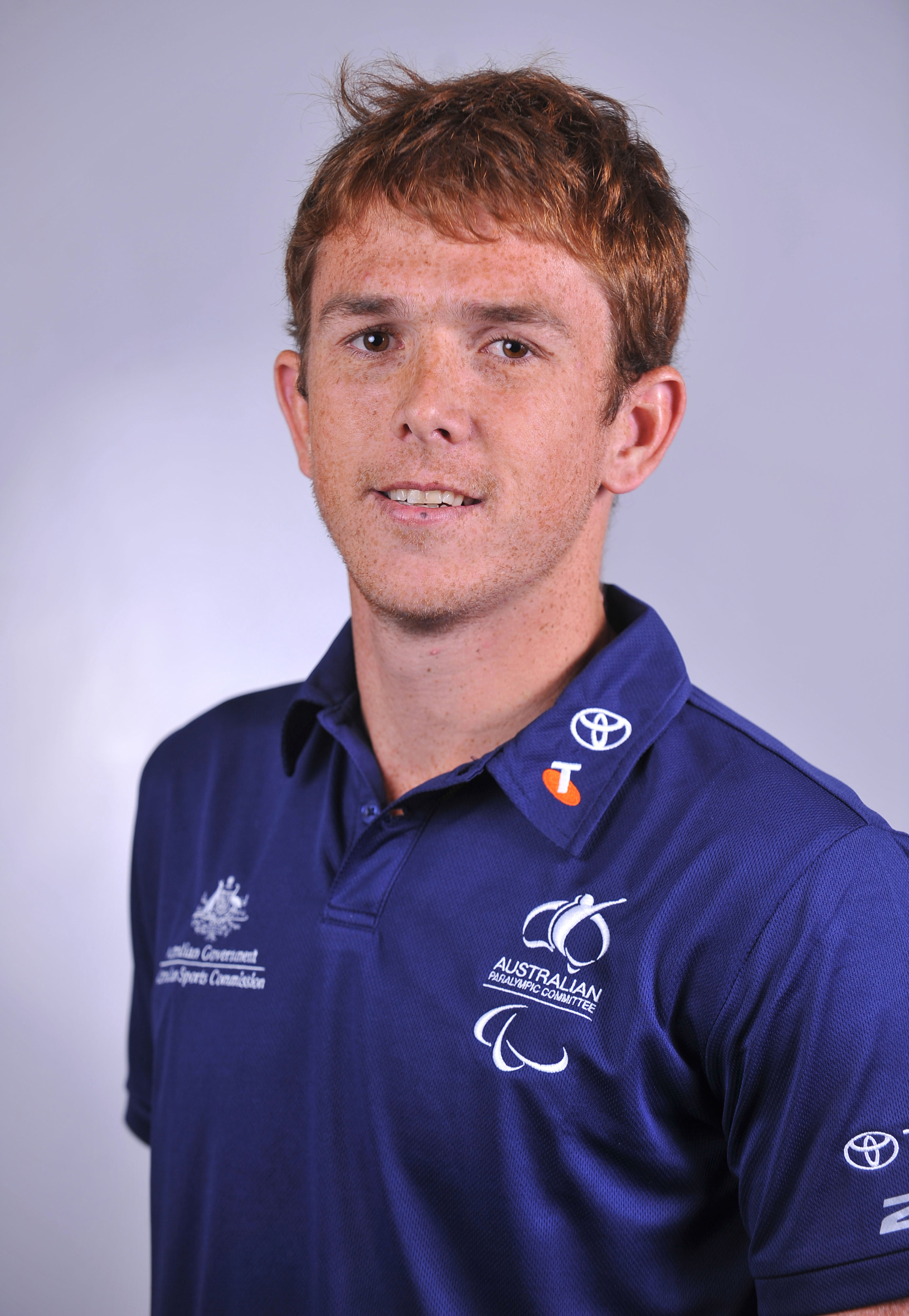 Portrait of Australian athlete Brad Scott, 2012 Australian Paralympic (shadow) Team athlete